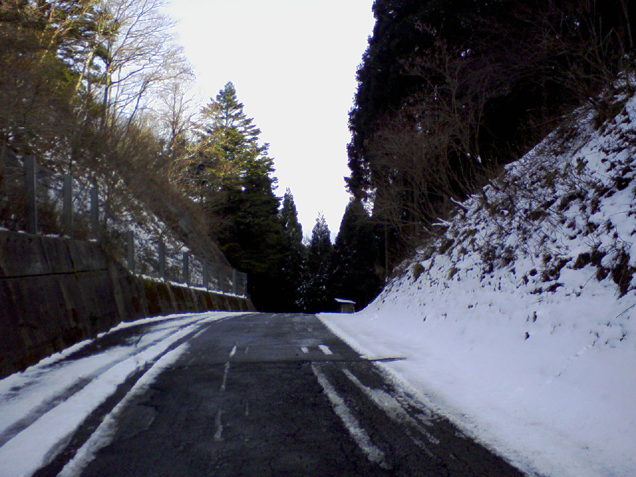 The photo of Seryo pass between Sakyo-ku and Ukyo-ku, Kyoto, Kyoto, Japan